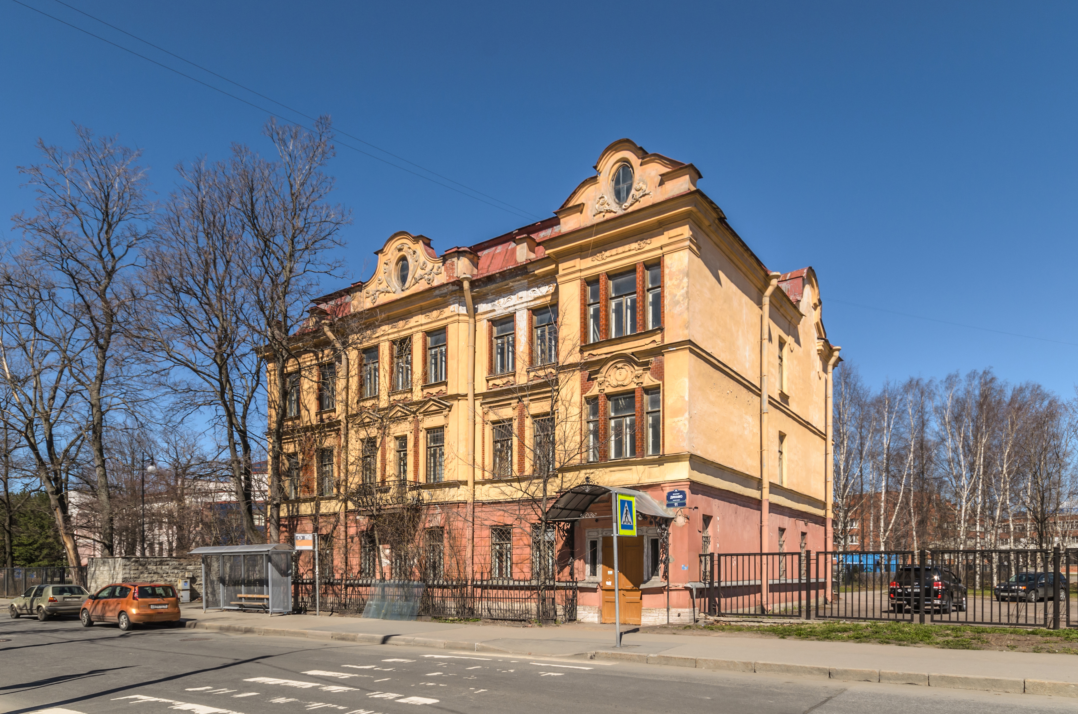 V. L. Kaplun's mansion on Krestovsky island in Saint Petersburg